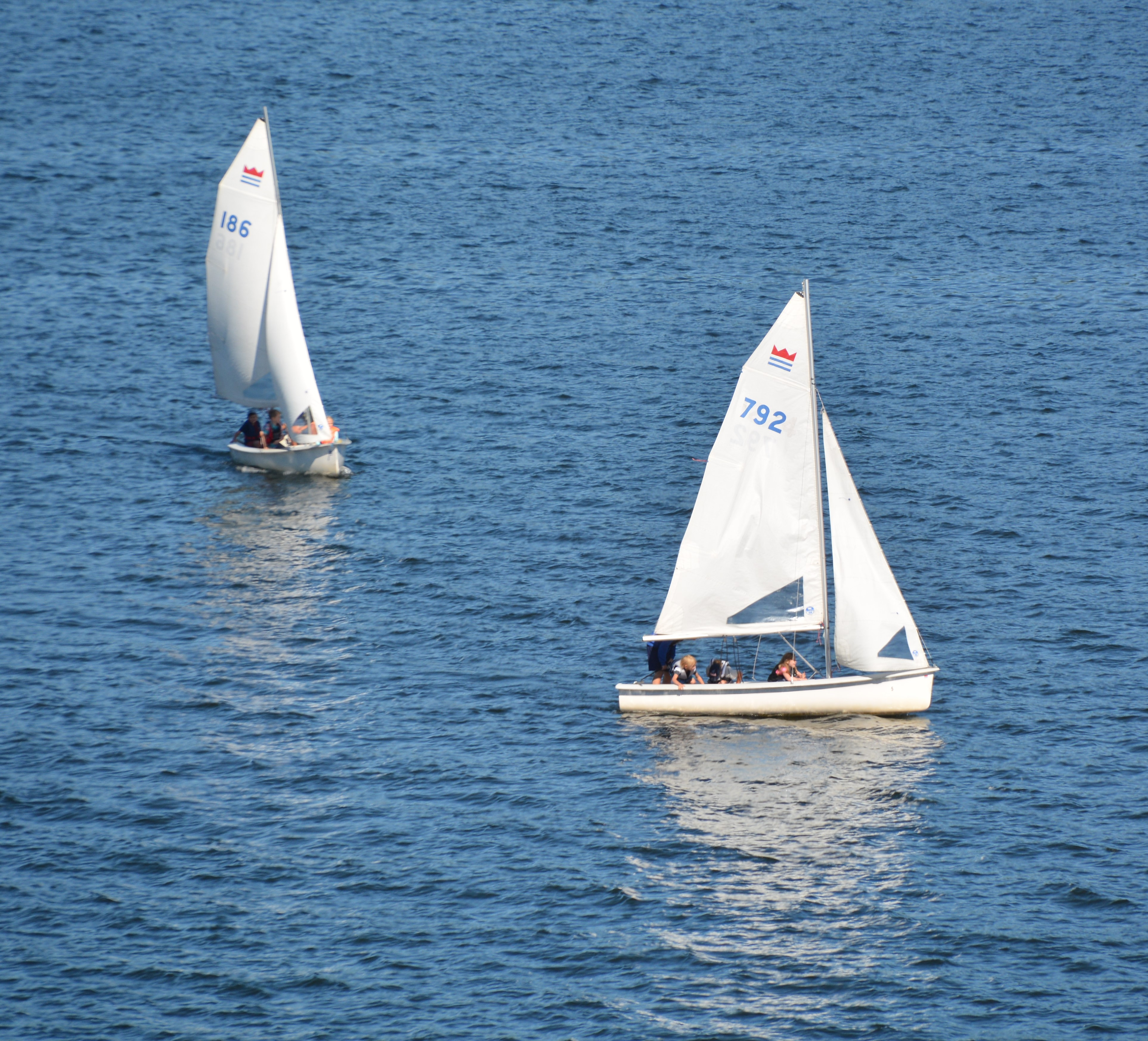 Tvåkronor sailing dimghies